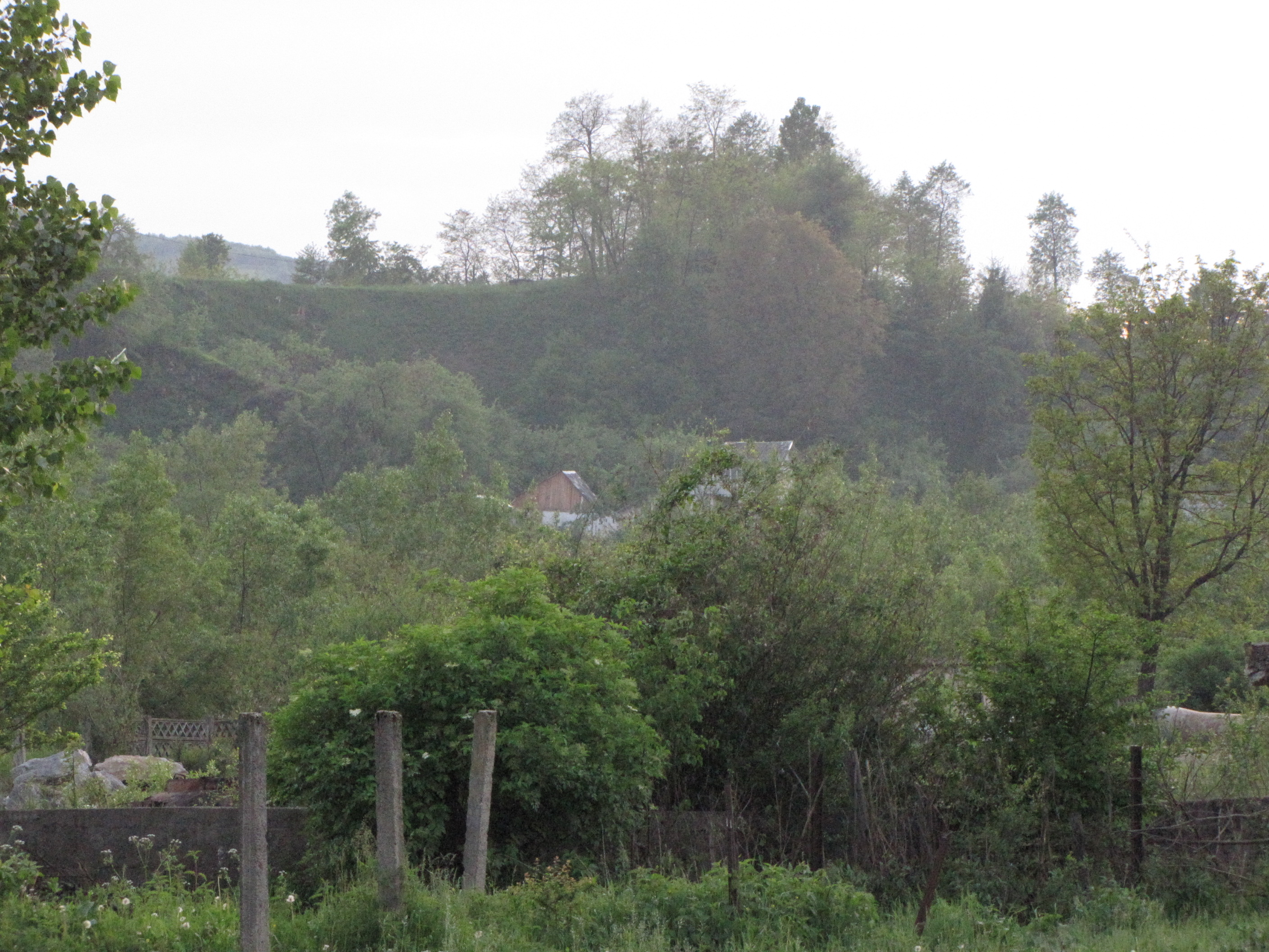 The fortress hill at Bogdan Vodă